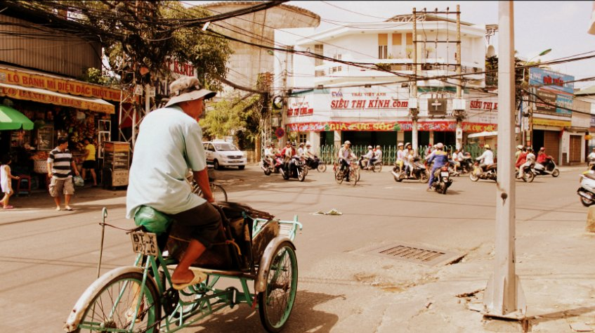 Xom Ga crossroads, Binh Thanh dist (near Go Vap), Saigon, Vietnam